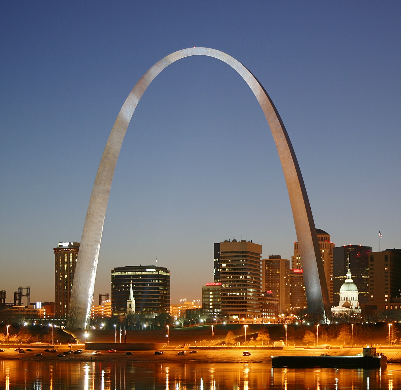 St. Louis on the Mississippi river by night. Jefferson National Expansion Memorial aka. Gateway Arch and Old Courthouse are visible.